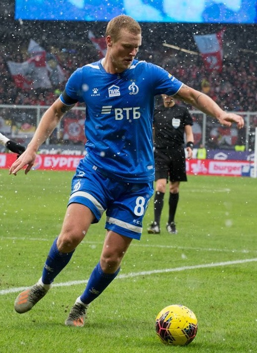 Oscar Hiljemark playing for FC Dynamo Moscow in a game against FC Spartak Moscow.